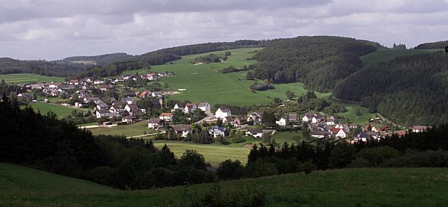 Wimbach/Eifel, Landkreis Ahrweiler, Germany